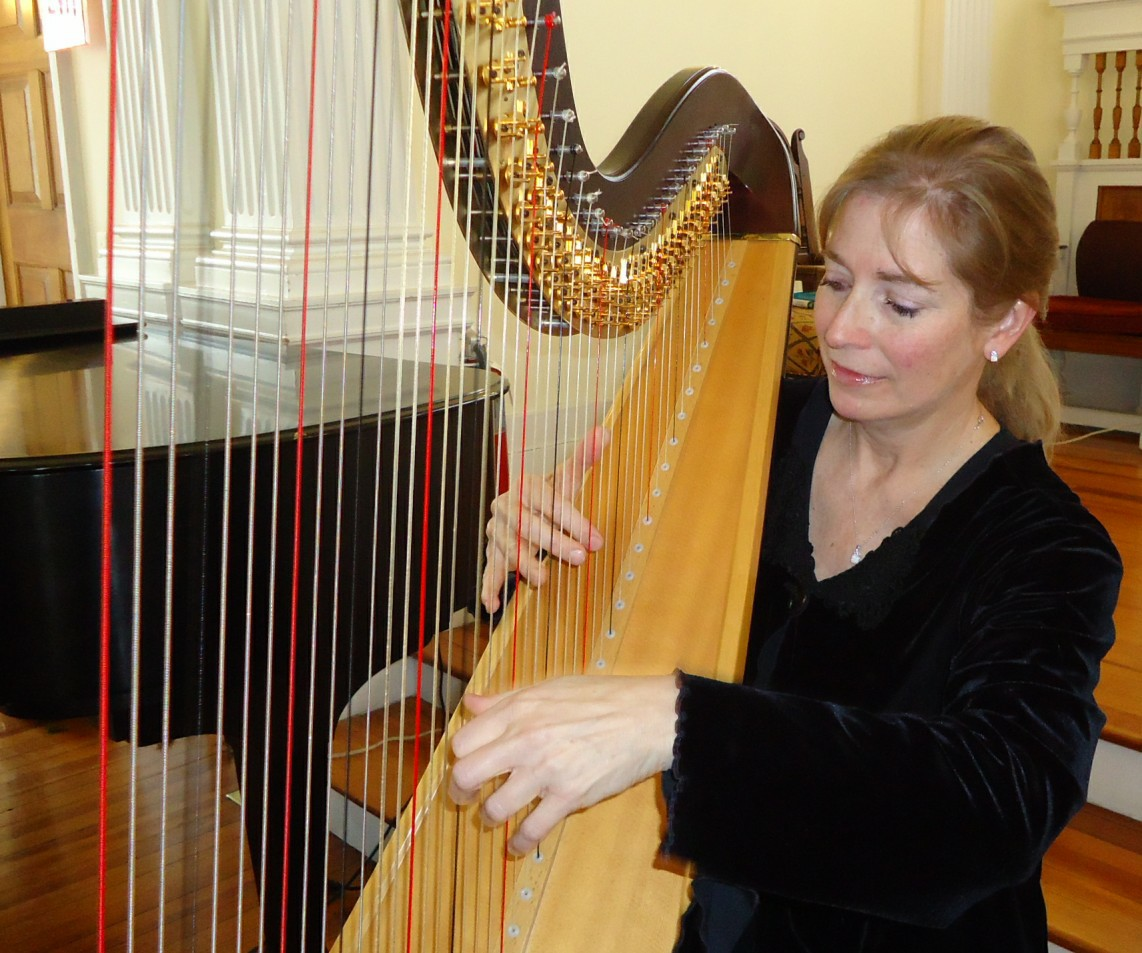 Harpist Elaine Christy performing at the Unitarian church in Summit, New Jersey, in 2012. Christy is a world renowned classical harpist who won the American National Harp competition and the Ruth Lorraine Close award and is an instructor of harp at Princeton University.